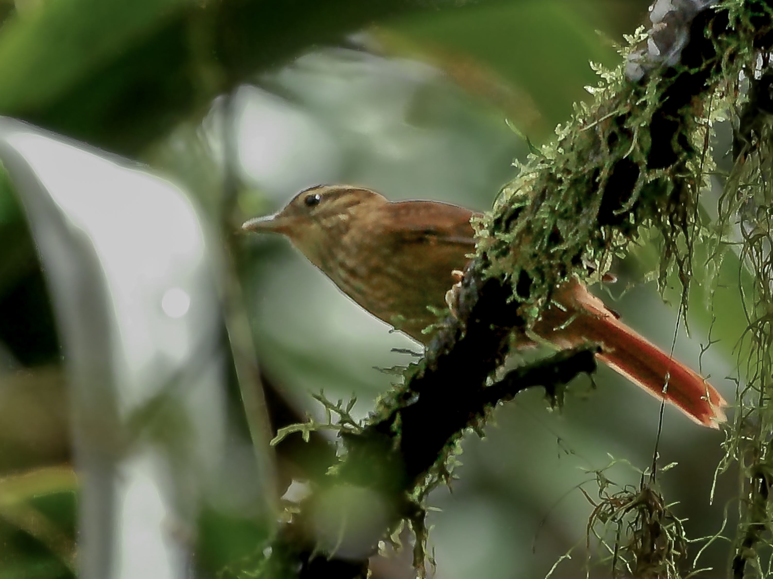 White-browed foliage-gleaner; São Luiz do Paraitinga, São Paulo, Brazil